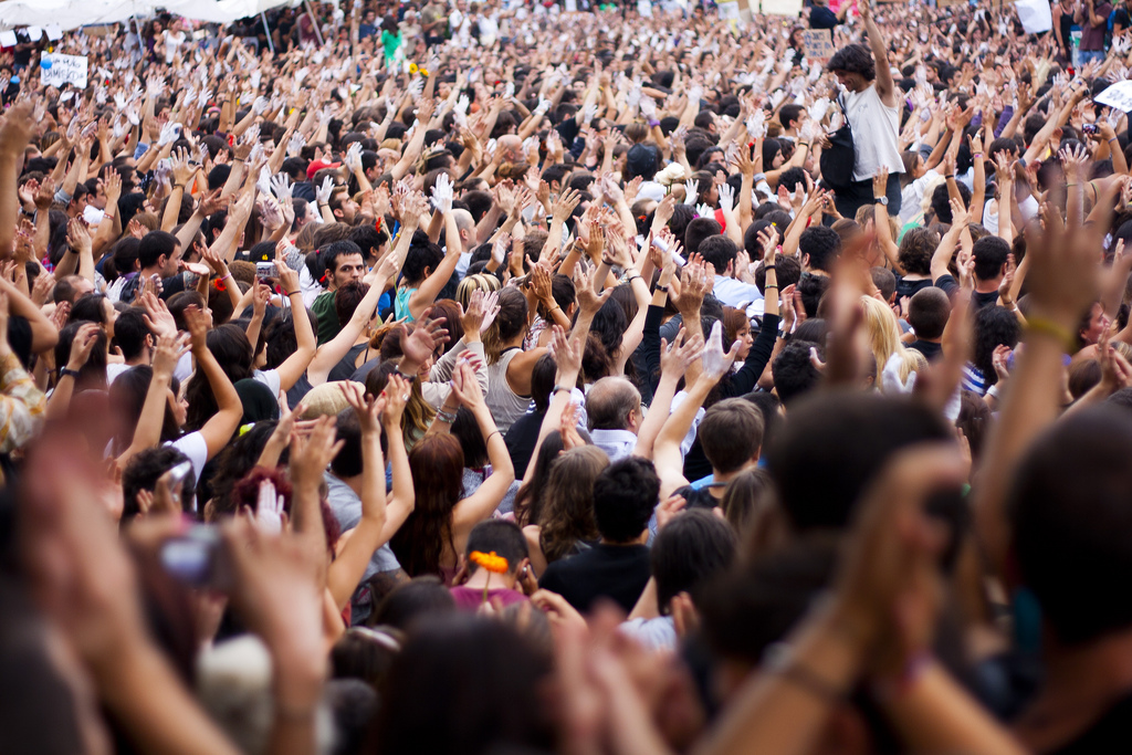 People showing agreement with hands up in Barcelona protests